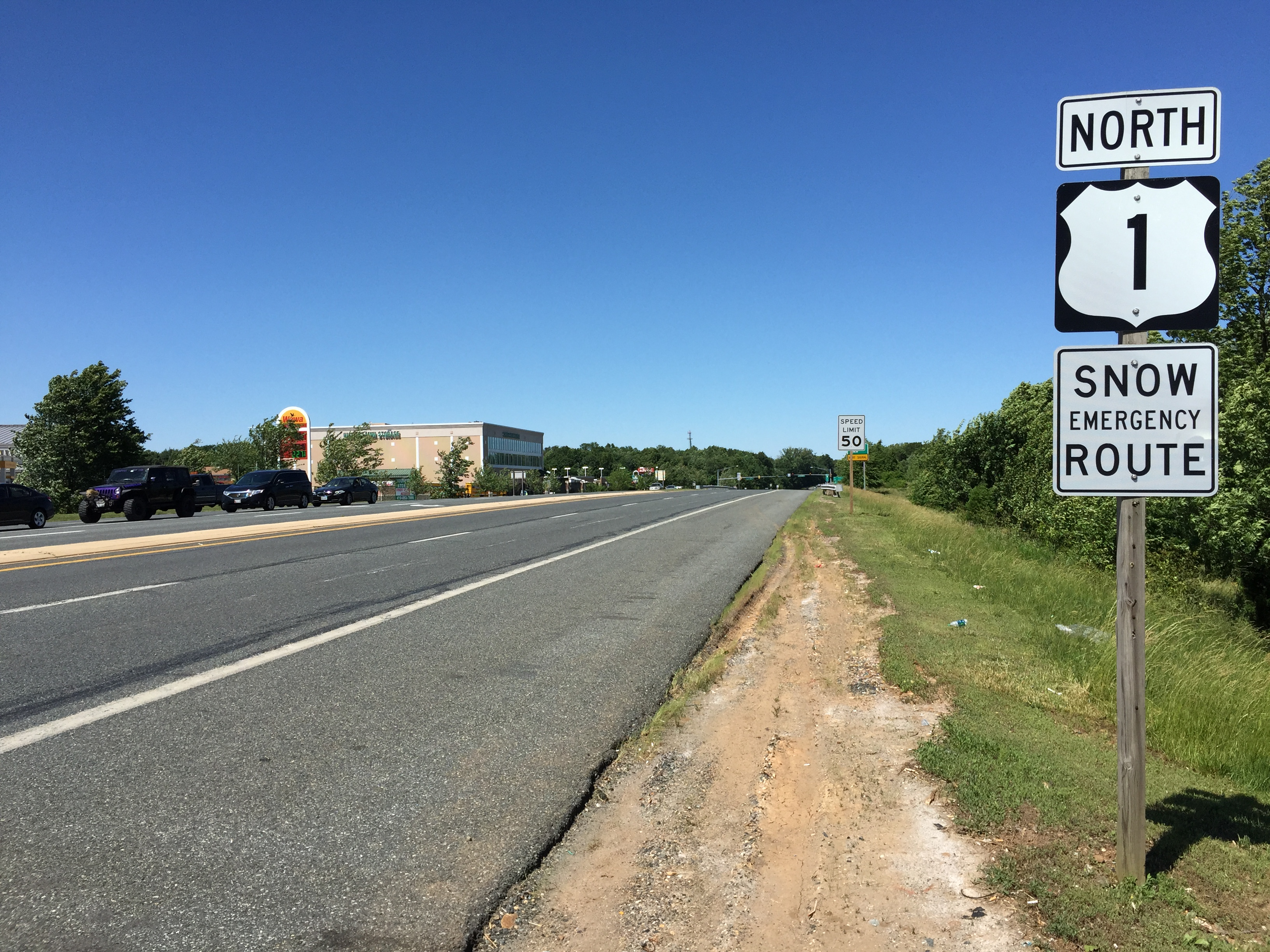 View north along U.S. Route 1 (Hickory Bypass) at U.S. Route 1 Business (Conowingo Road) in Bel Air North, Maryland